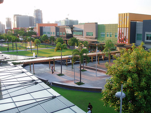 Taguig street, Fort Bonifacio, Metro Manila, Philippines